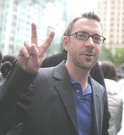 Ted Allen in New York on May 19, 2006.